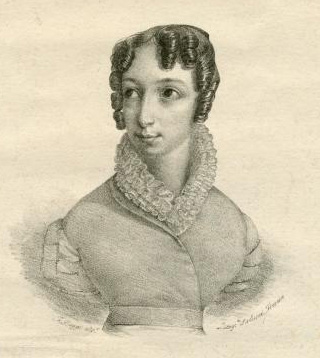 Portrait of Caterina Lipparini (1792-1855), who created the role of Elisabetta in Donizetti's Otto mesi in due ore, Naples, 1827